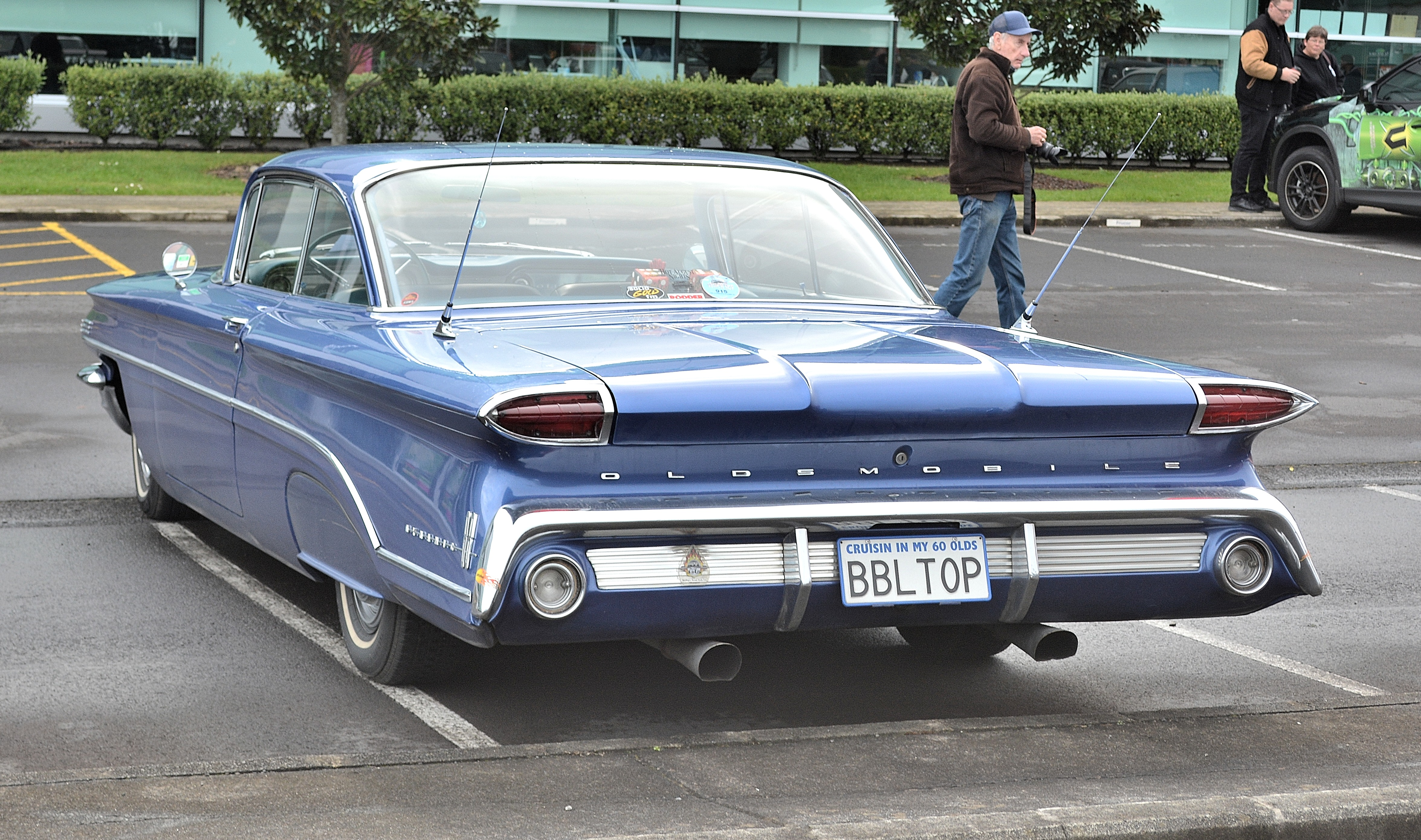 Manakua,South Auckland.New Zealand